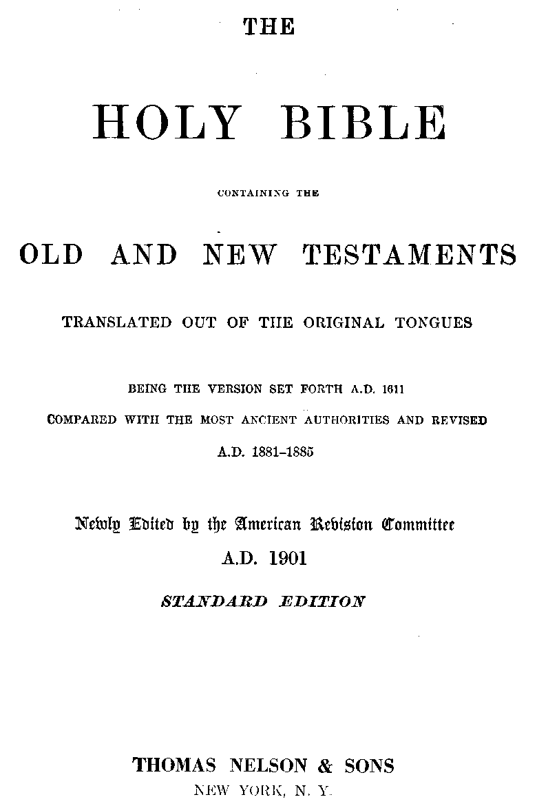 This is the title page of the American Standard Version of the Bible, published in 1901 (the copyright was renewed in 1929). The copyright on the text has expired.